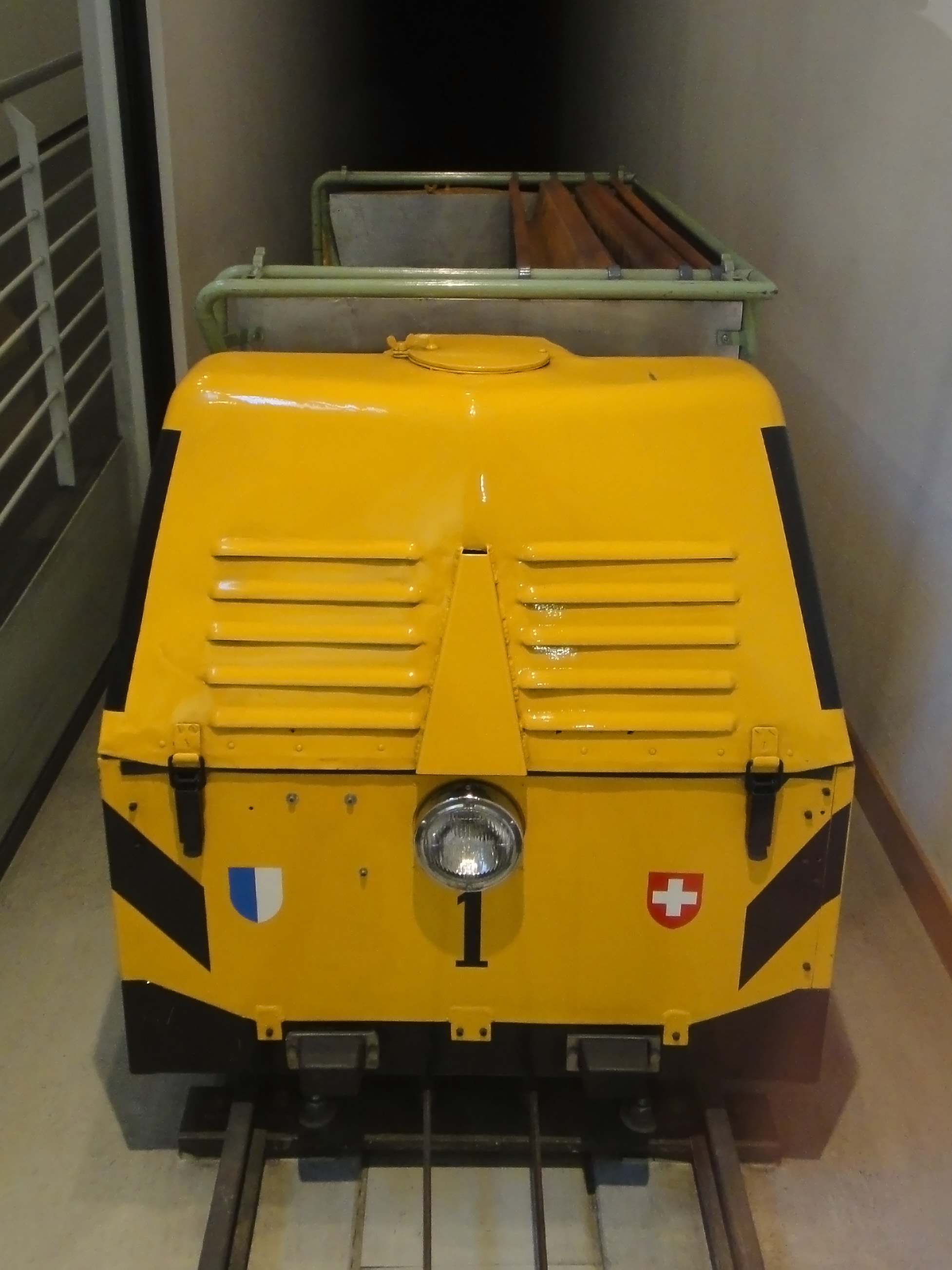 Driverless electric car for underground transport between Sihlpost, the main Zurich post office, and the branch in the main train station. In use from 1956 to 1980. The car erroneously carries the Lucerne instead of the Zurich canton coat of arms. Museum of Communication Bern.